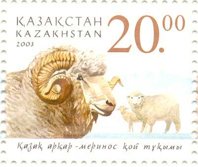 Stamp of Kazakhstan